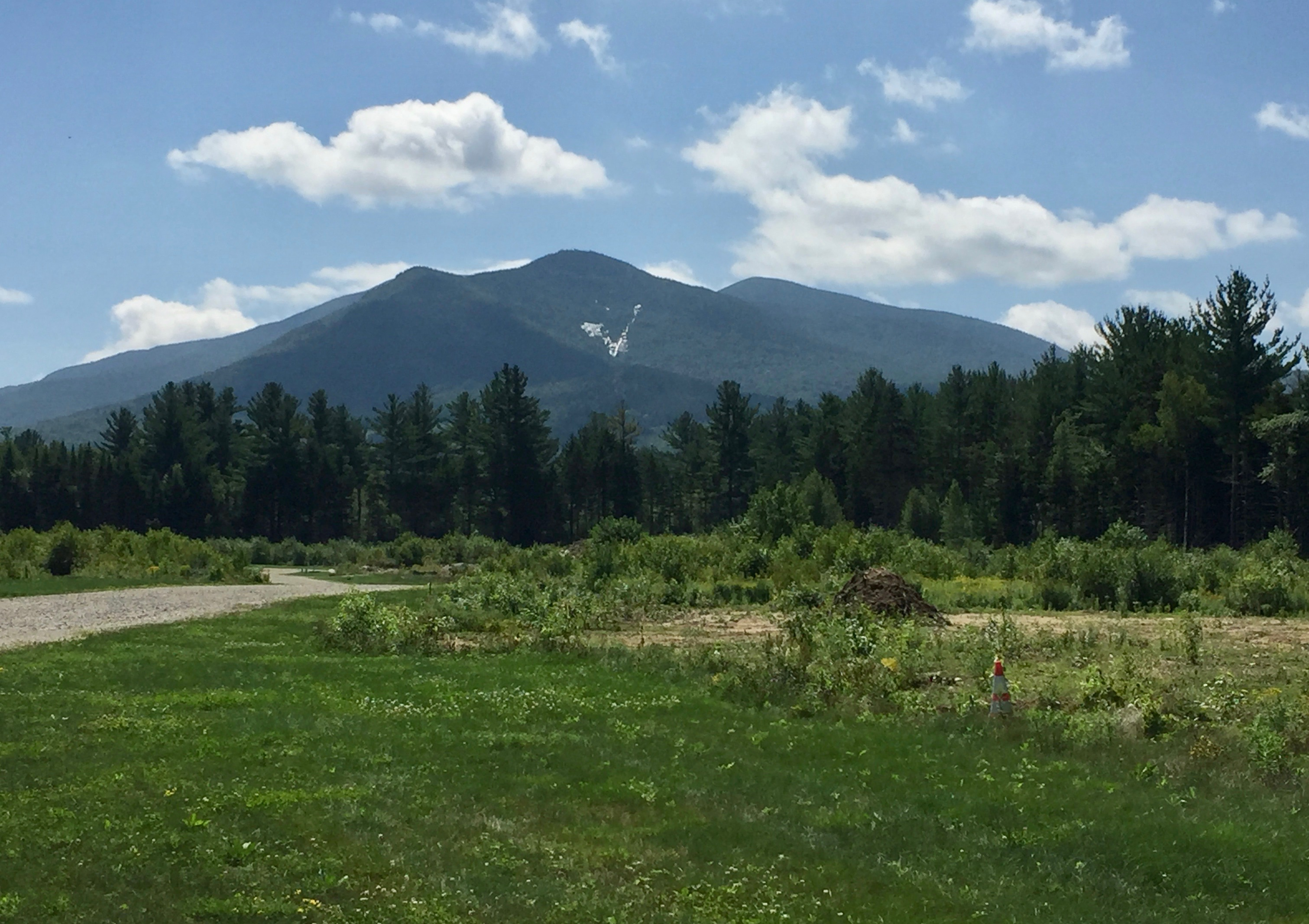 Nubble Peak rising above town of Twin Mountain, New Hampshire